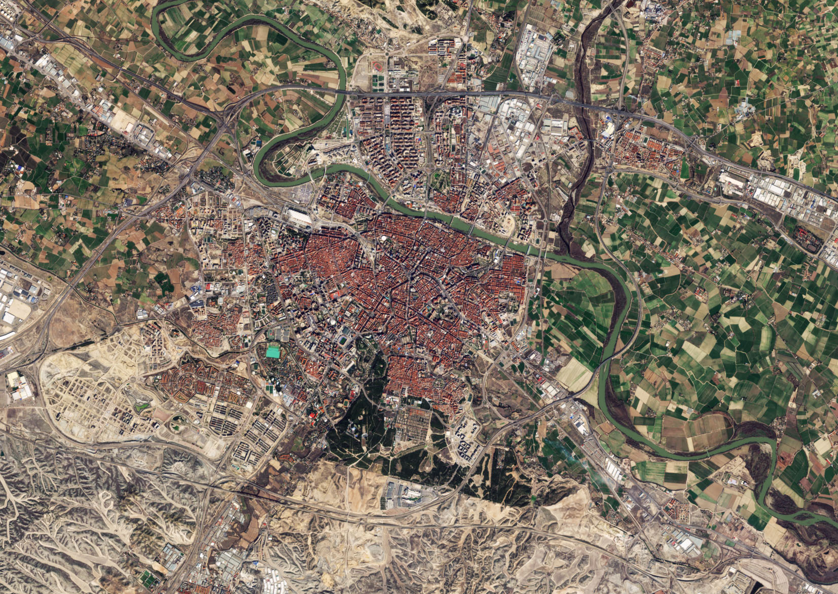 This Copernicus Sentinel-2B image features the city of Zaragoza nestling in the Ebro valley and flanked by mountains to the south. Zaragoza is the capital of the province of Zaragoza in the region of Aragon in northeast Spain. It is home to about half of Aragon’s population, making it the fifth largest municipality in Spain. Released: 25/01/2019